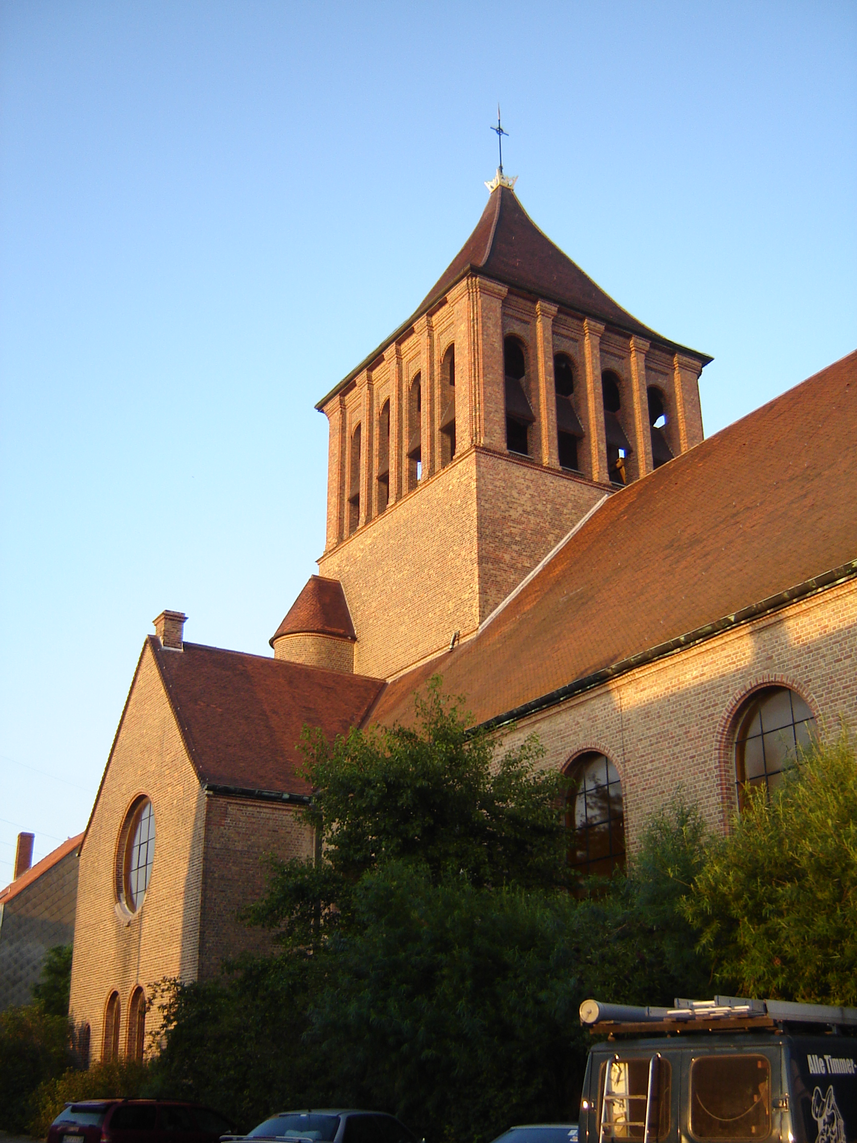 Church of Saint Joseph in Bredene-Sas. Bredene, West Flanders, Belgium